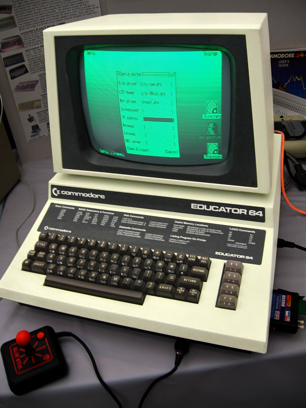 A Commodore Educator 64 computer (also sold as the PET 64 and Model 4064) - a microcomputer made by Commodore Business Machines in 1983. Essentially it is a Commodore 64 in a Commodore PET-style case with a monochrome only display. This Educator64 is running the open source computer operating system, Contiki.